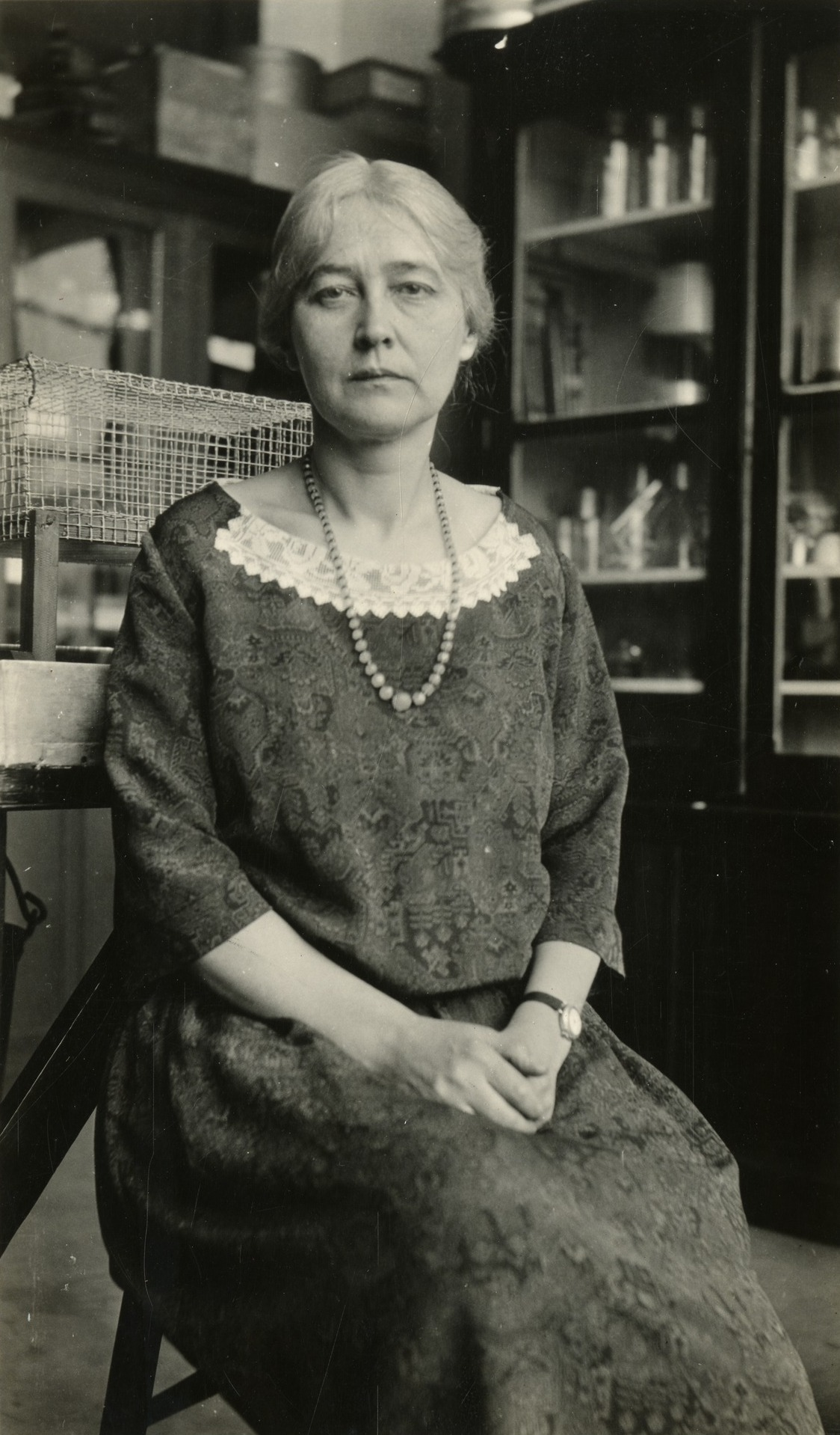 Subject: Menten, Maud Leonora 1879-1960 Type: Black-and-white photographs Topic: Biochemistry Histochemistry Medicine Women scientists Local number: SIA Acc. 90-105 [SIA2008-5999] Summary: Canadian-born physician and biochemist Maud Leonora Menten (1879-1960) made important contributions to enzyme kinetics and histochemistry Cite as: Acc. 90-105 - Science Service, Records, 1920s-1970s, Smithsonian Institution Archives Persistent URL:Link to data base record Repository:Smithsonian Institution Archives View more collections from the Smithsonian Institution.